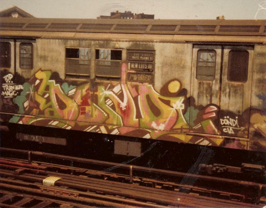 A New York subway train, R22 series, as it was typical for the late 1970s. The graffiti-piece is by DONDI, a famous graffiti artist.